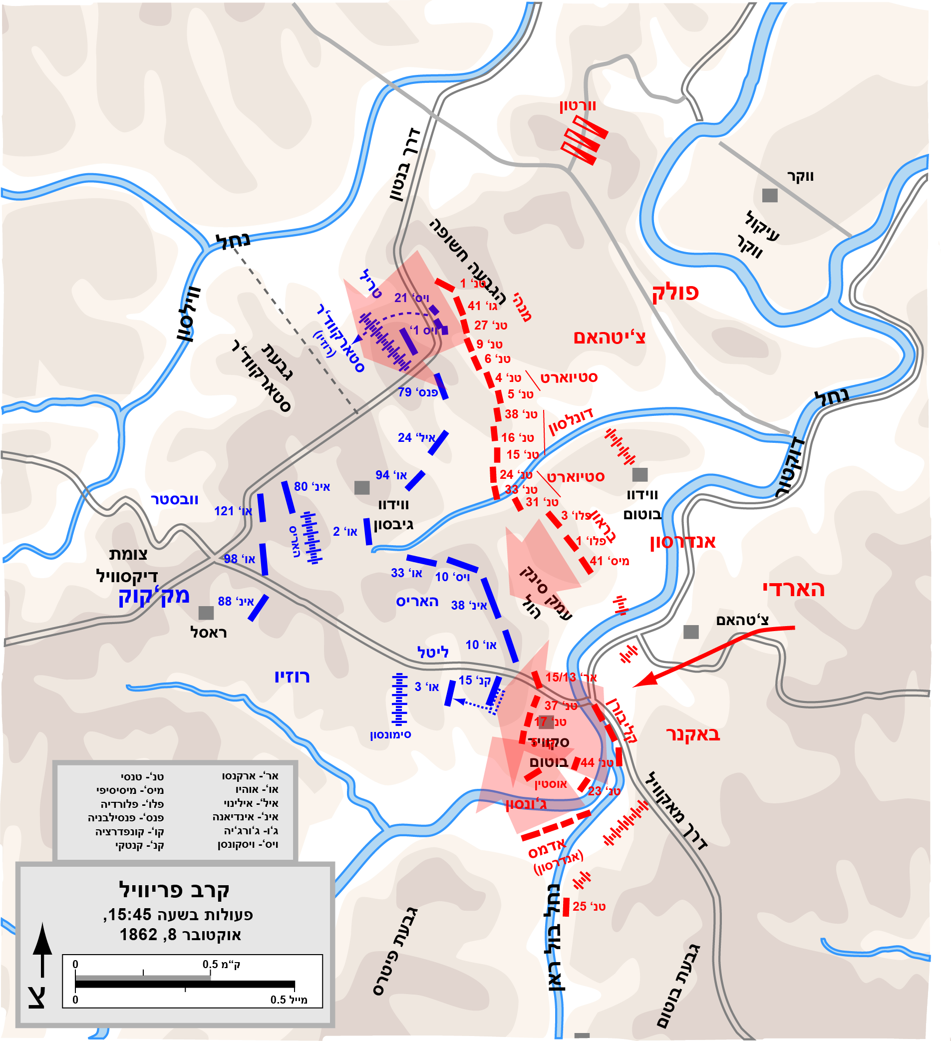 Map of the Battle of Perryville of the American Civil War. Drawn by Hal Jespersen in Adobe Illustrator CS5. Graphic source file is available at